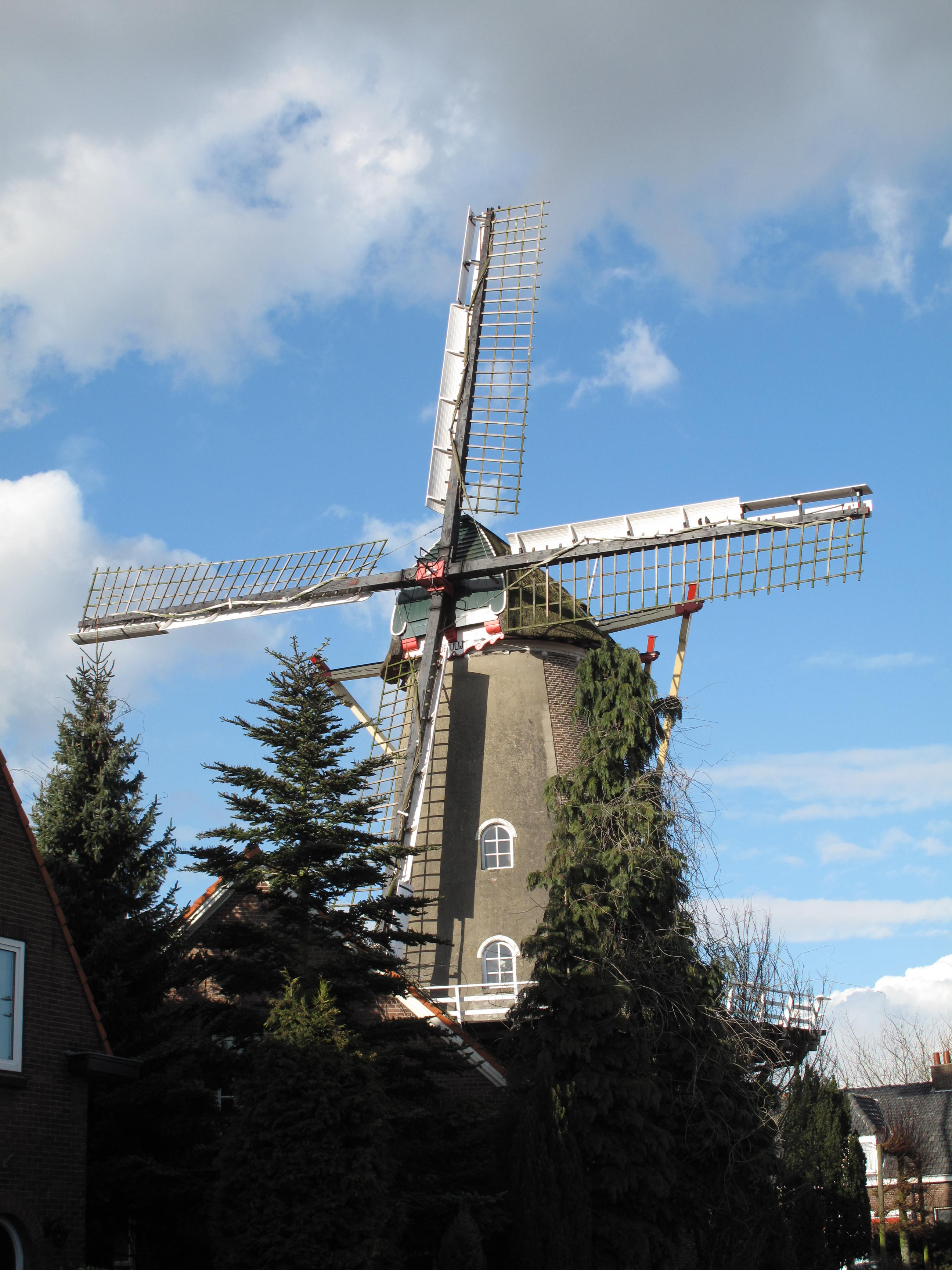 Wageningen, windmill De Vlijt